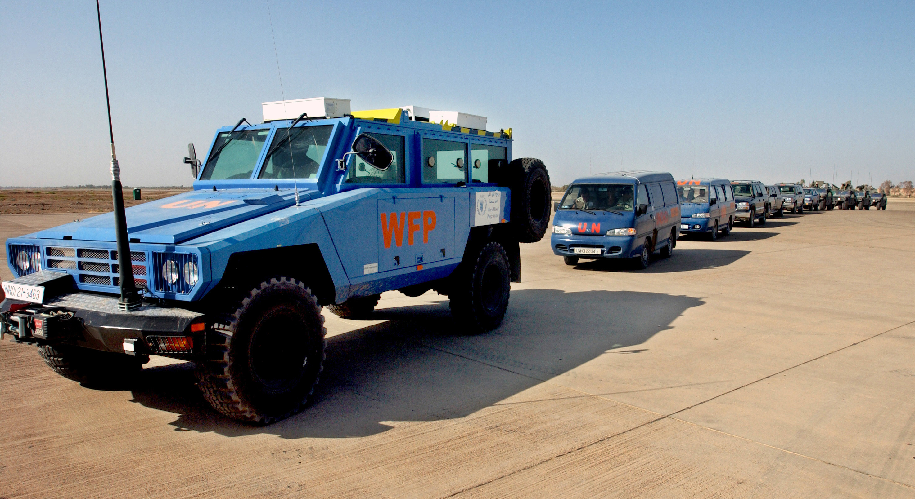 An armored vehicle from the United Nations (UN) World Food Program (WFP) leads a convoy of UN vehicles in procession carrying the remains of bombing victims from the UN Office of Humanitarian Coordinator for Iraq (UNOHCI), as the arrive at Baghdad International Airport, Iraq, during Operation IRAQI FREEDOM. The bombing victims remains will be airlifted to their respective home countries for repatriation.